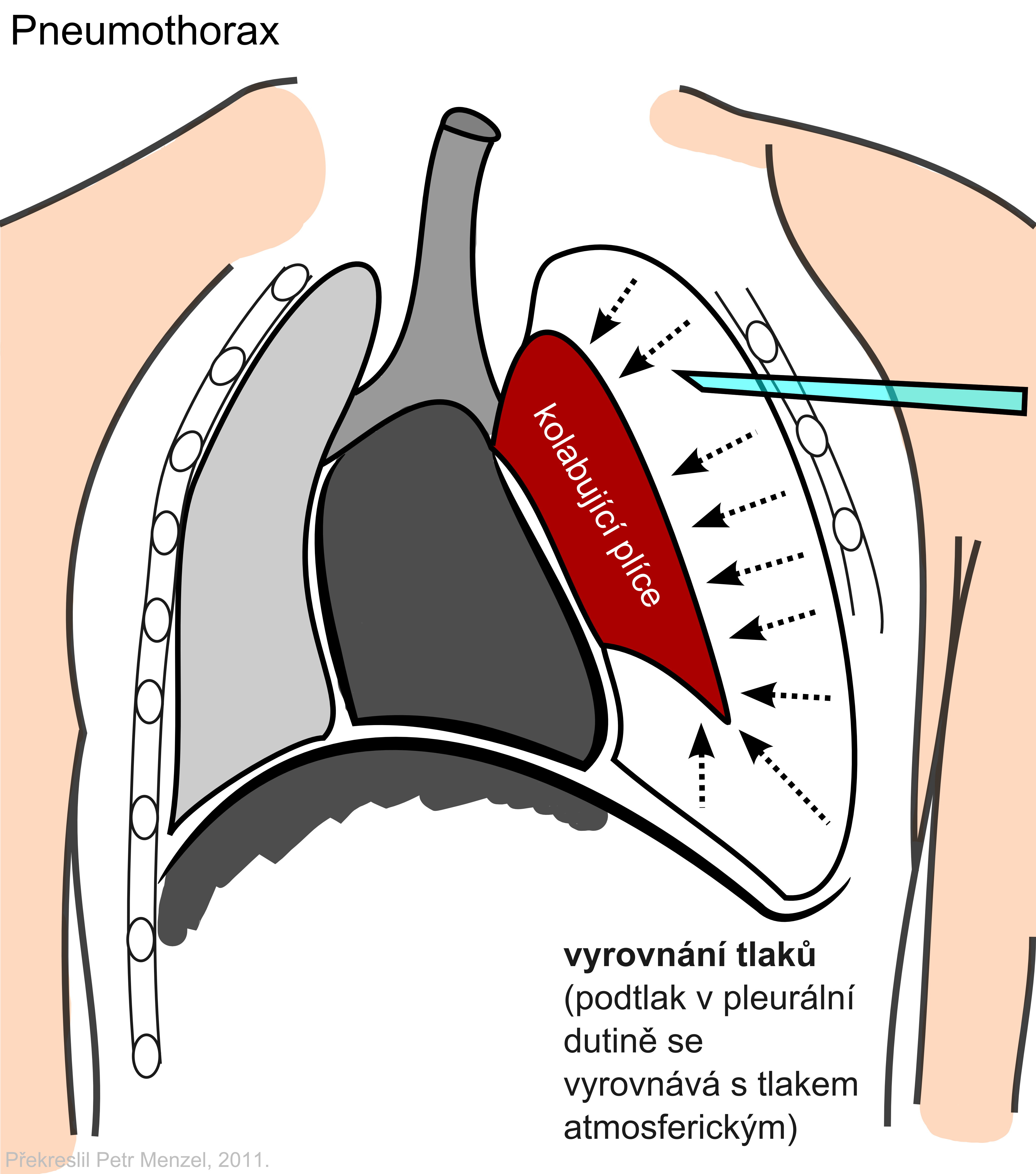 Scheme for pneumothorax.